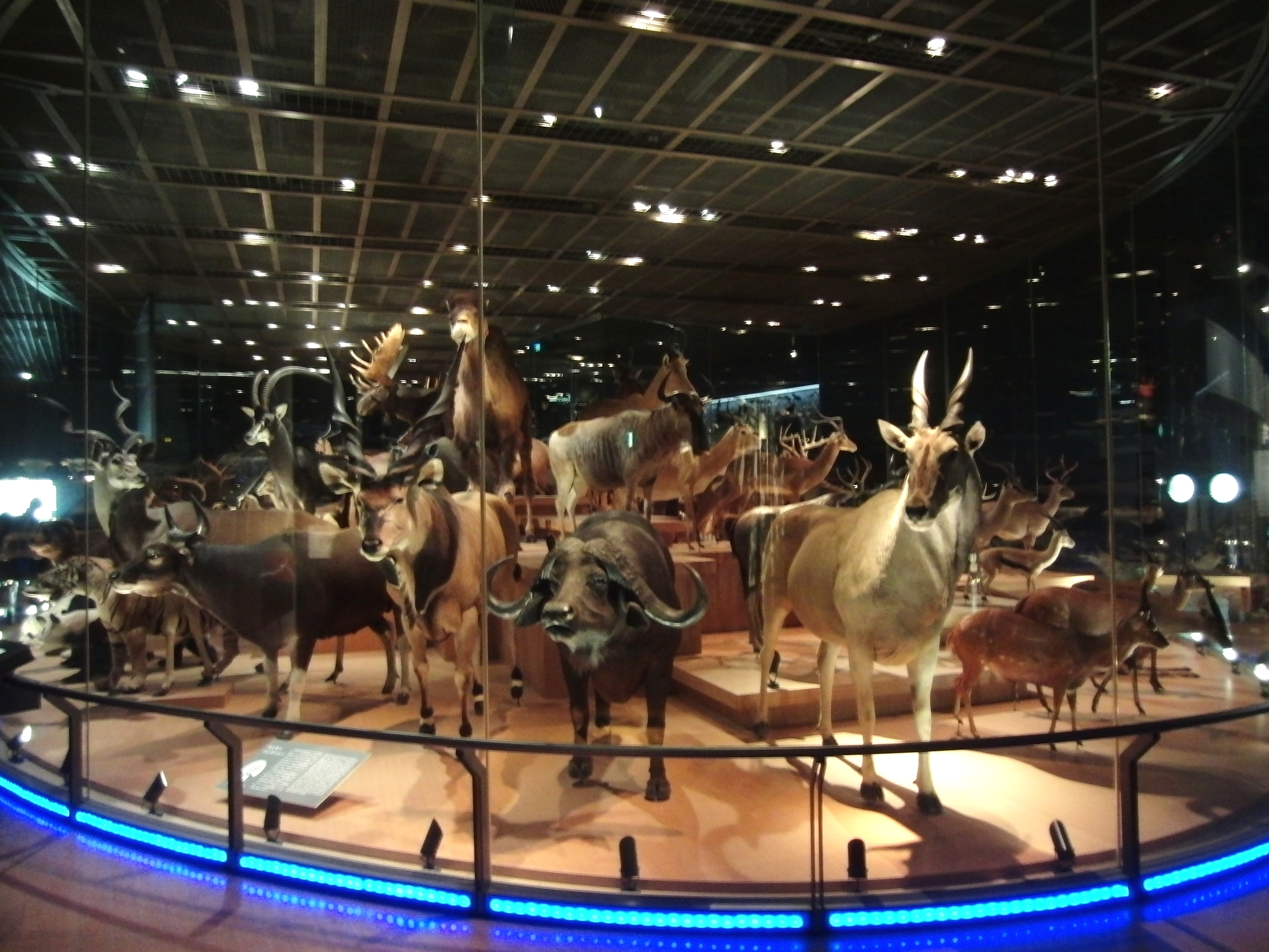 Mammals collection "Yoshimoto Collection". Exhibit in the National Museum of Nature and Science, Tokyo, Japan.